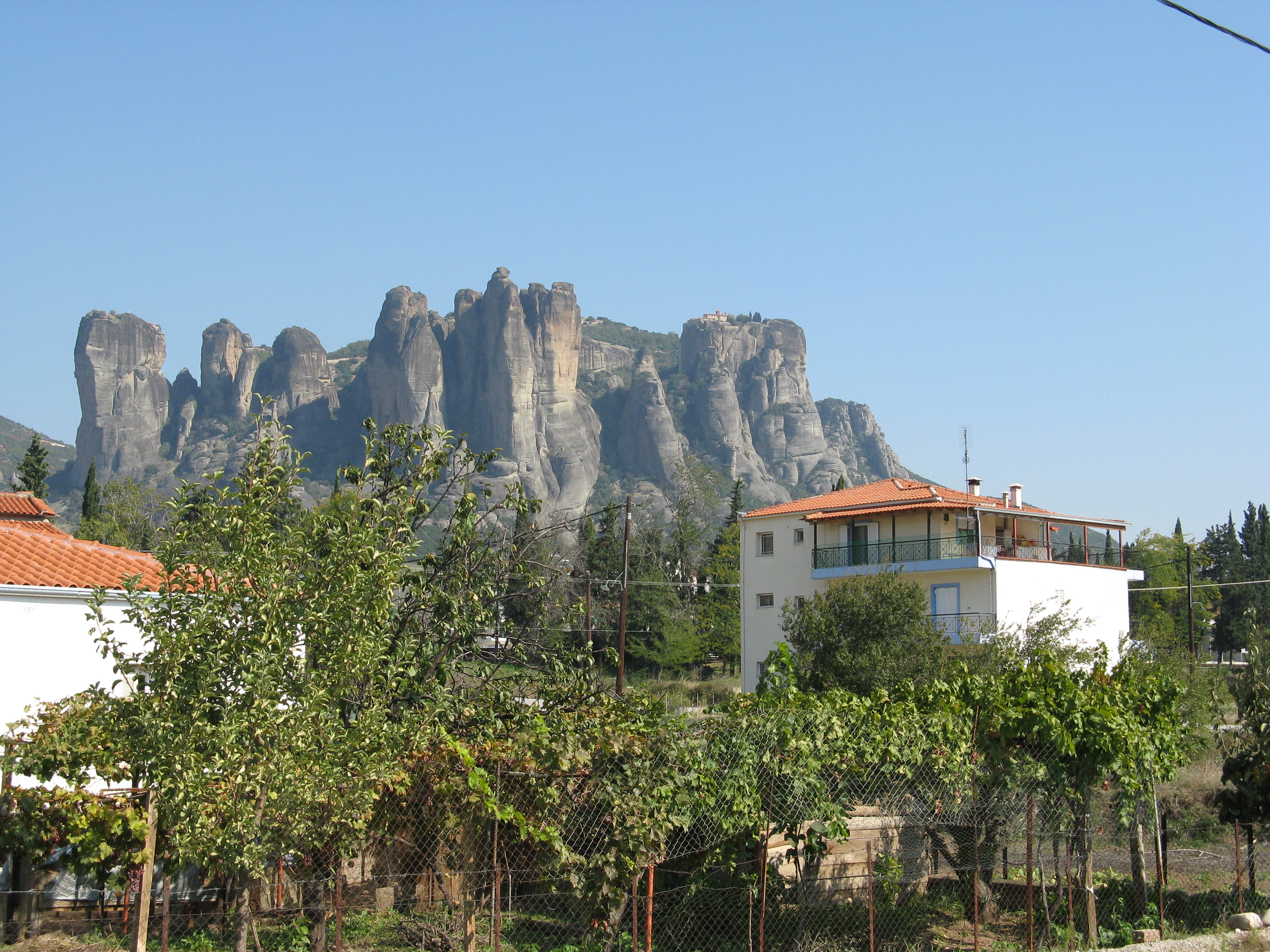 Meteora as seen from Kalambaka.